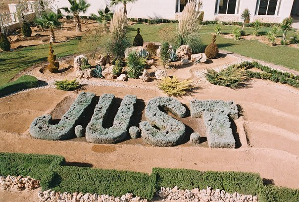 Jordan University of Science and Technology